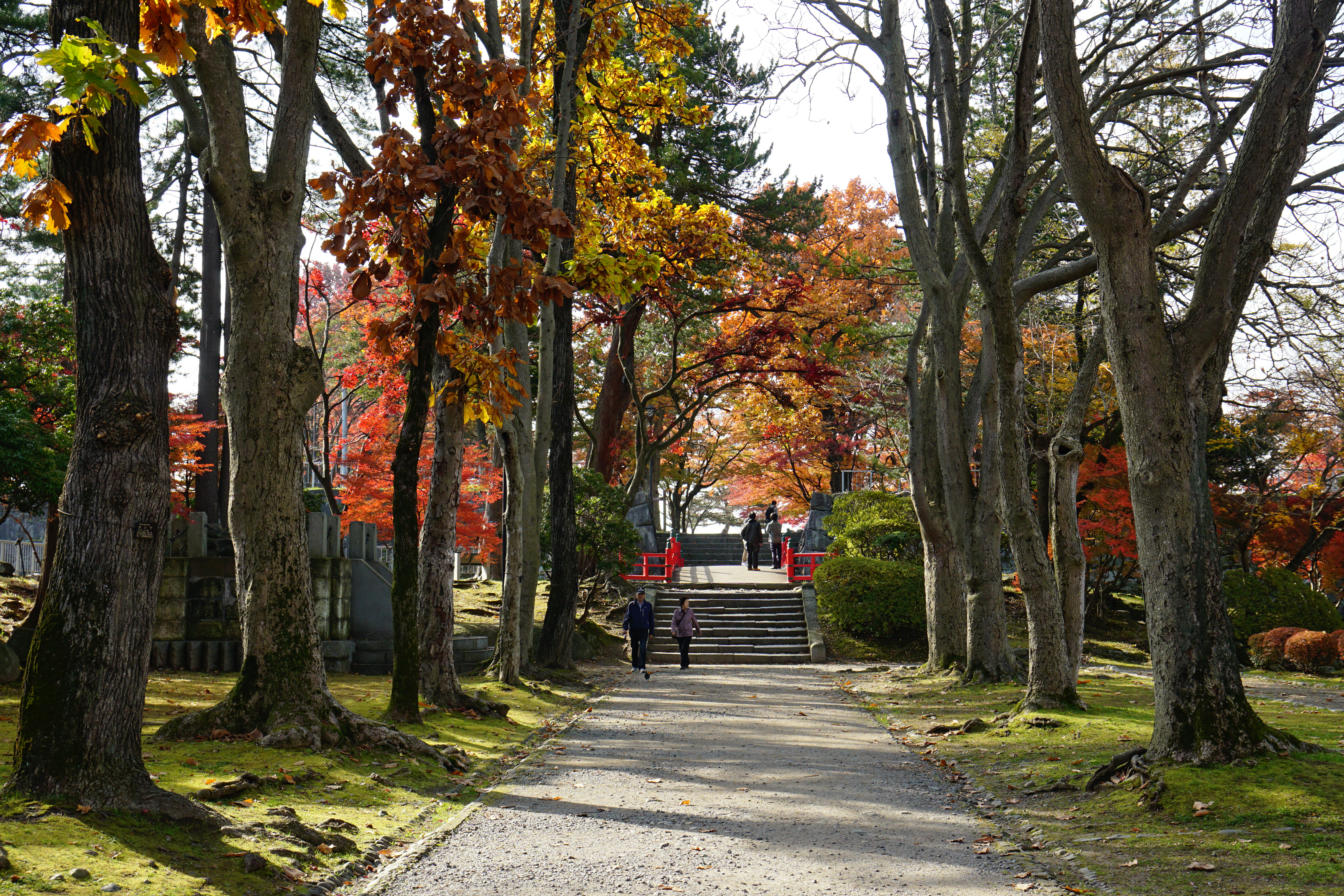 Morioka_Castle in Morioka, Iwate prefecture, Japan